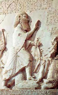 Inscription of Darius I the Great at Bisotoun